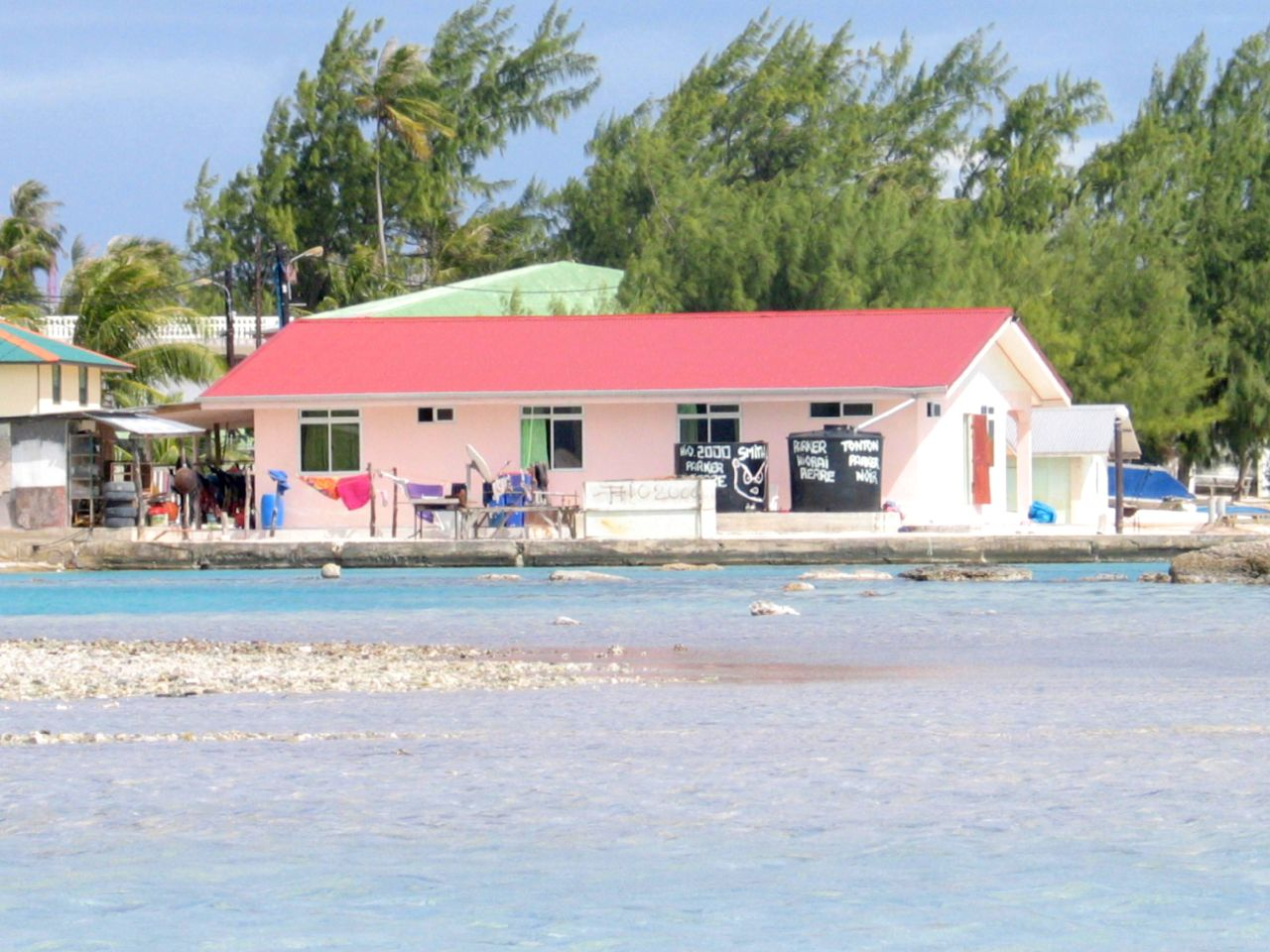 (Unidentified island of the Tuamotus)